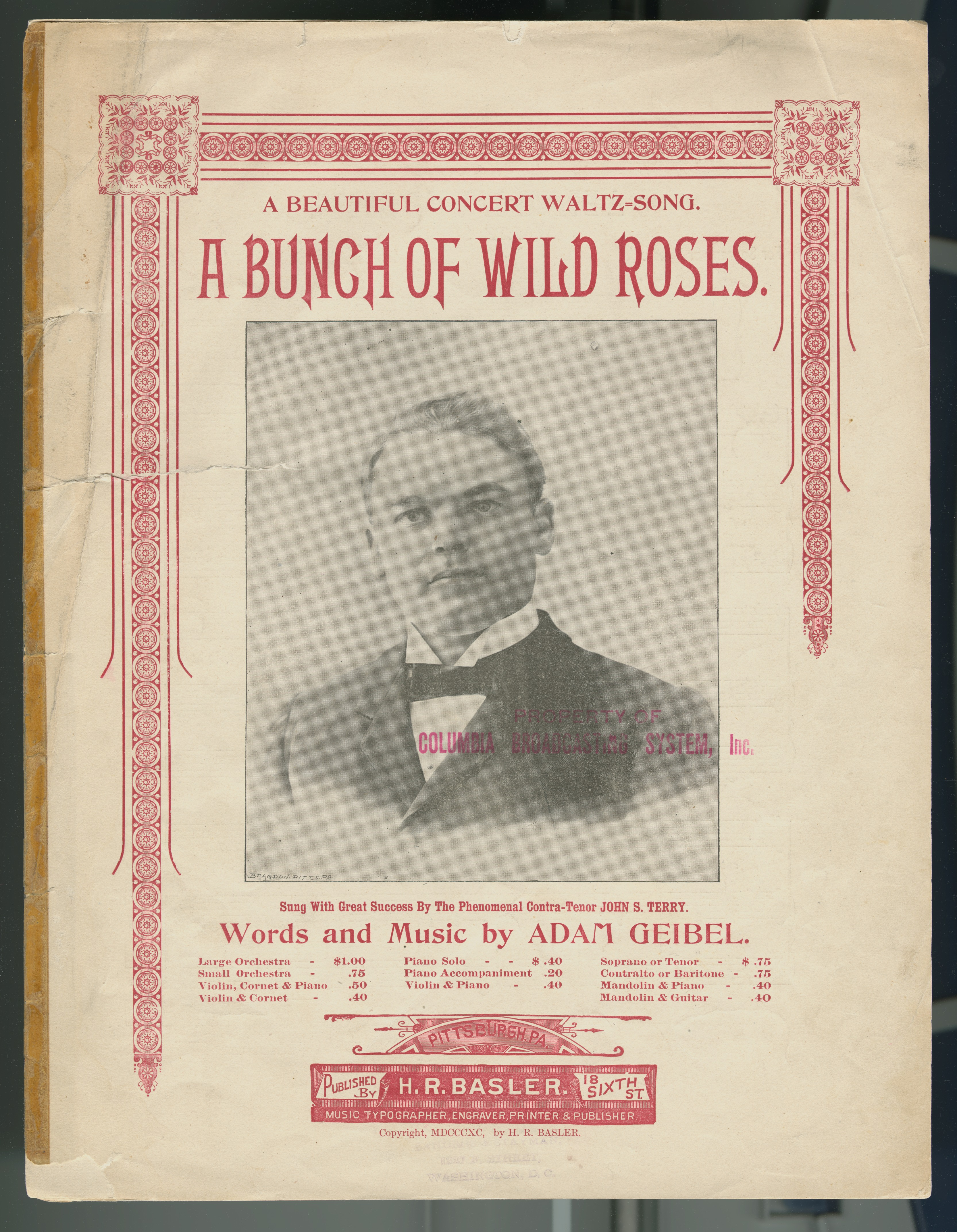 Cover illustration shows a photograph portrait of the dedicatee, singer John S. Terry. Statement of responsibility : words and music by Adam Geibel.